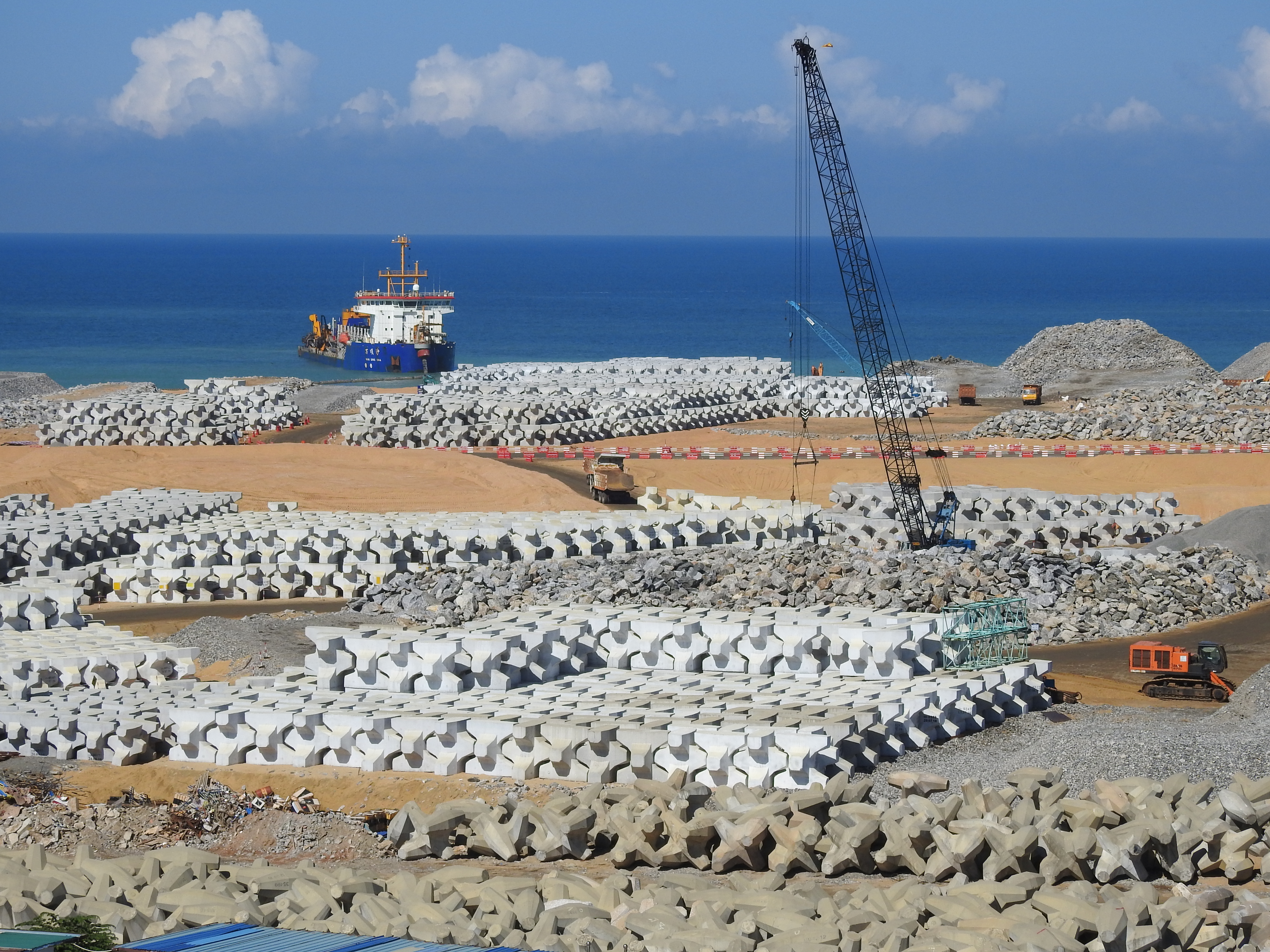 Photos of current/future skyscrapers (and its surroundings) in Colombo, taken by User:Rehman and User:Azeez as part of a photowalk project by Wikimedia Community User Group Sri Lanka. The photowalk covered most of the tallest structures in Colombo that are either completed or under construction. Further information on the subject(s) of the photograph can be found in the category/ies of this file.